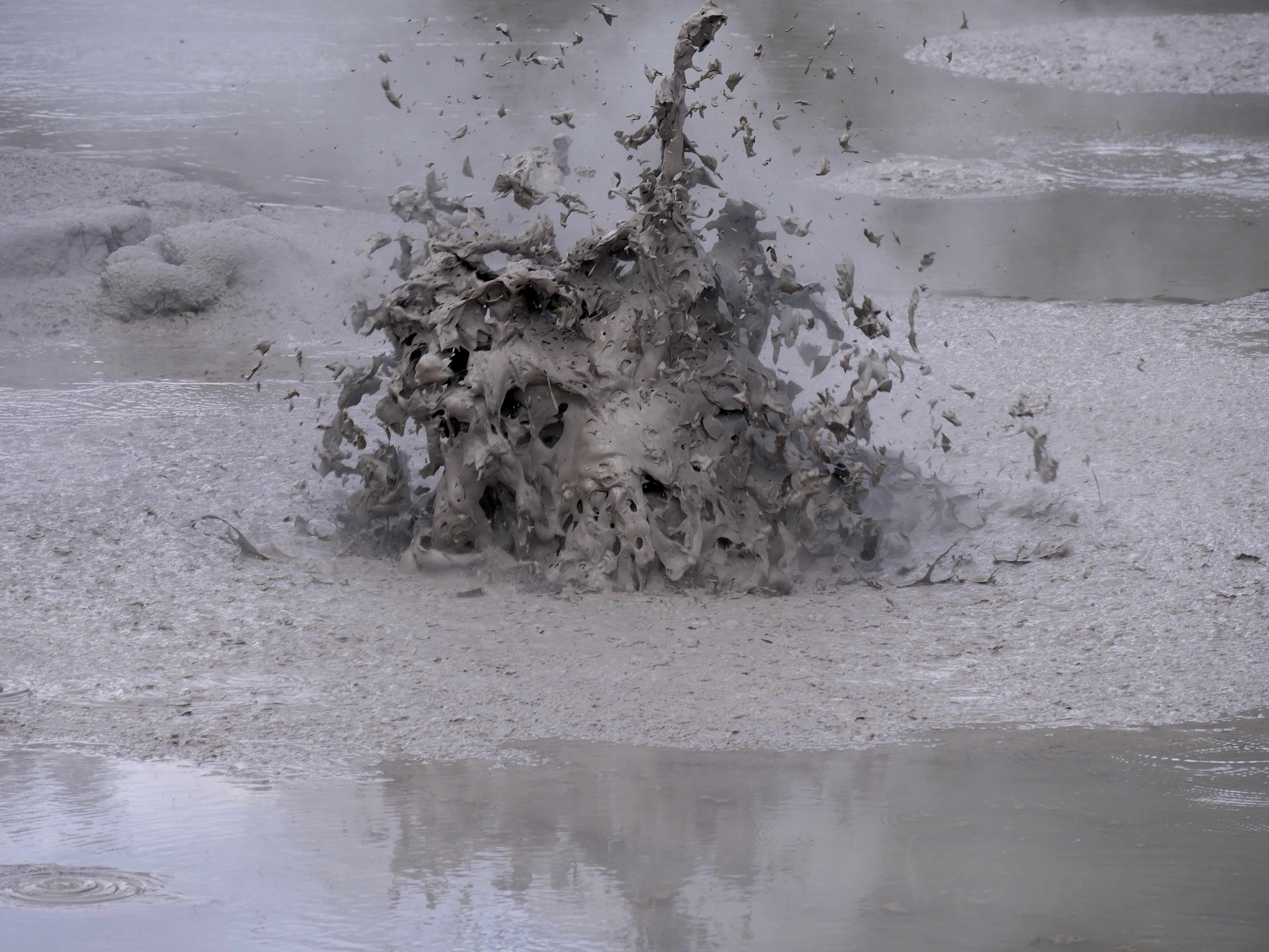 Bursting bubble in mud vulcano in Wai-O-Tapu geothermal area, Waikato Region, North Island, New Zealand